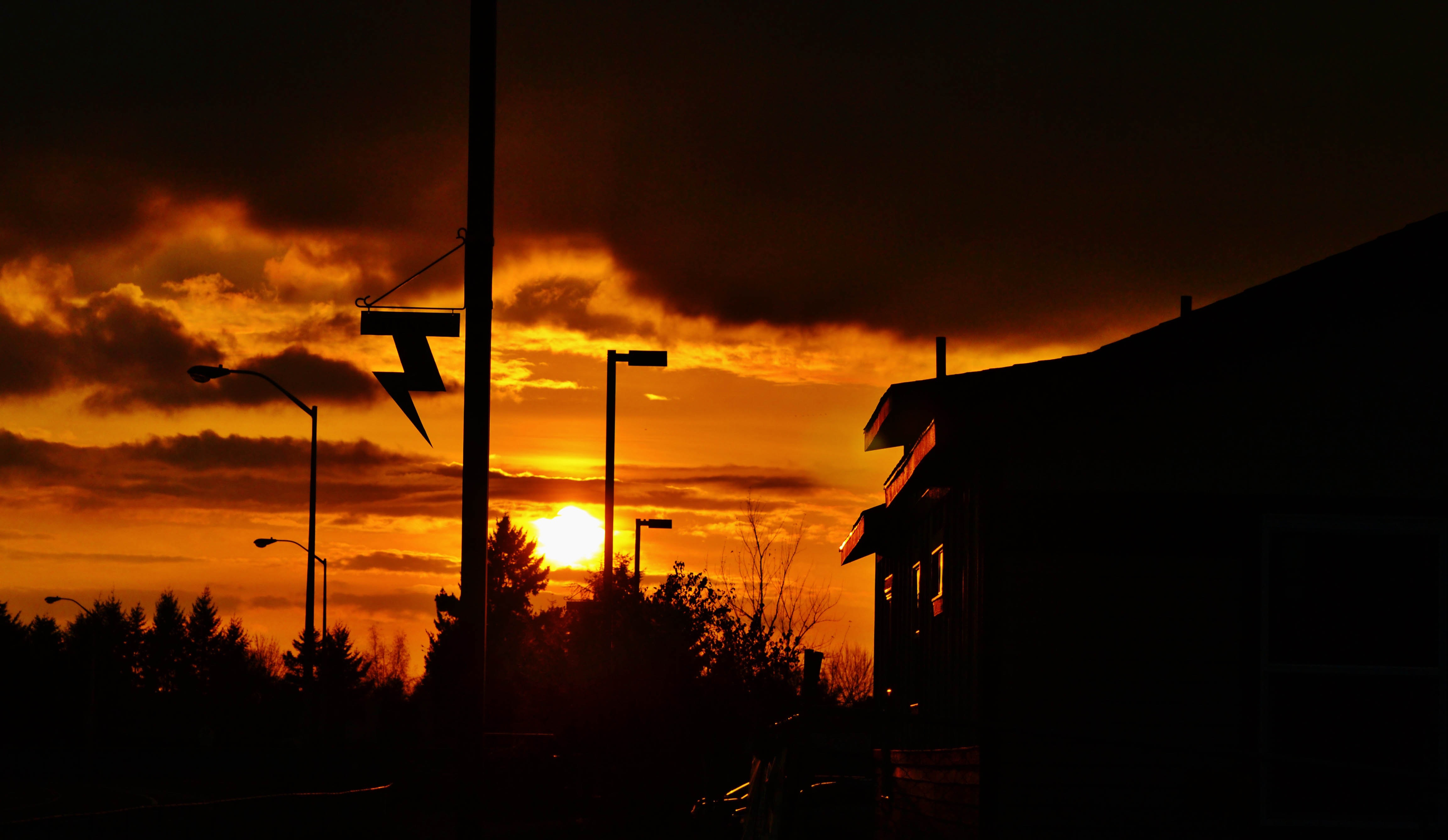 Sign in Front of Mountain View High School (Thunder). Vancouver, Washington